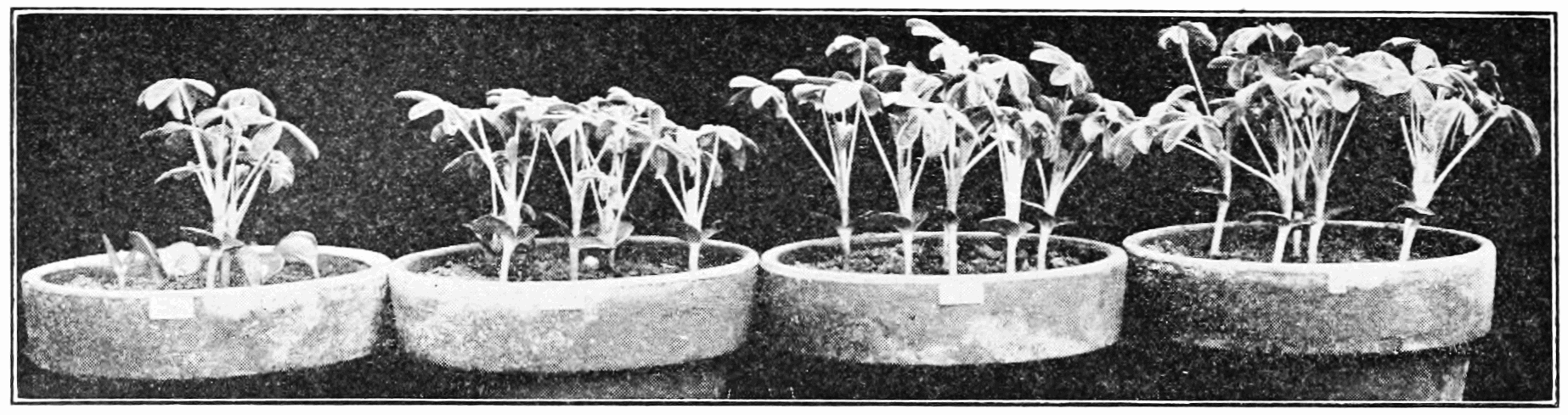 Three plants irradiated with a fourth as the control